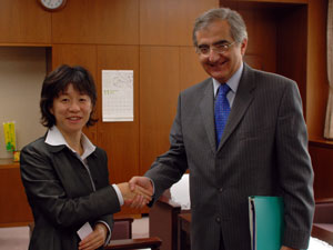 Alberto D'Alotto, Chief of Staff to the Minister of Foreign Affairs and Worship, met Yasue Funayama, Parliamentary Secretary of Agriculture, Forestry and Fisheries, at the Central Government Building No.1 in Chiyoda Ward, Tōkyō Metropolis on November 4, 2009.(For terms of use, see 農林水産省/リンクについて・著作権.)